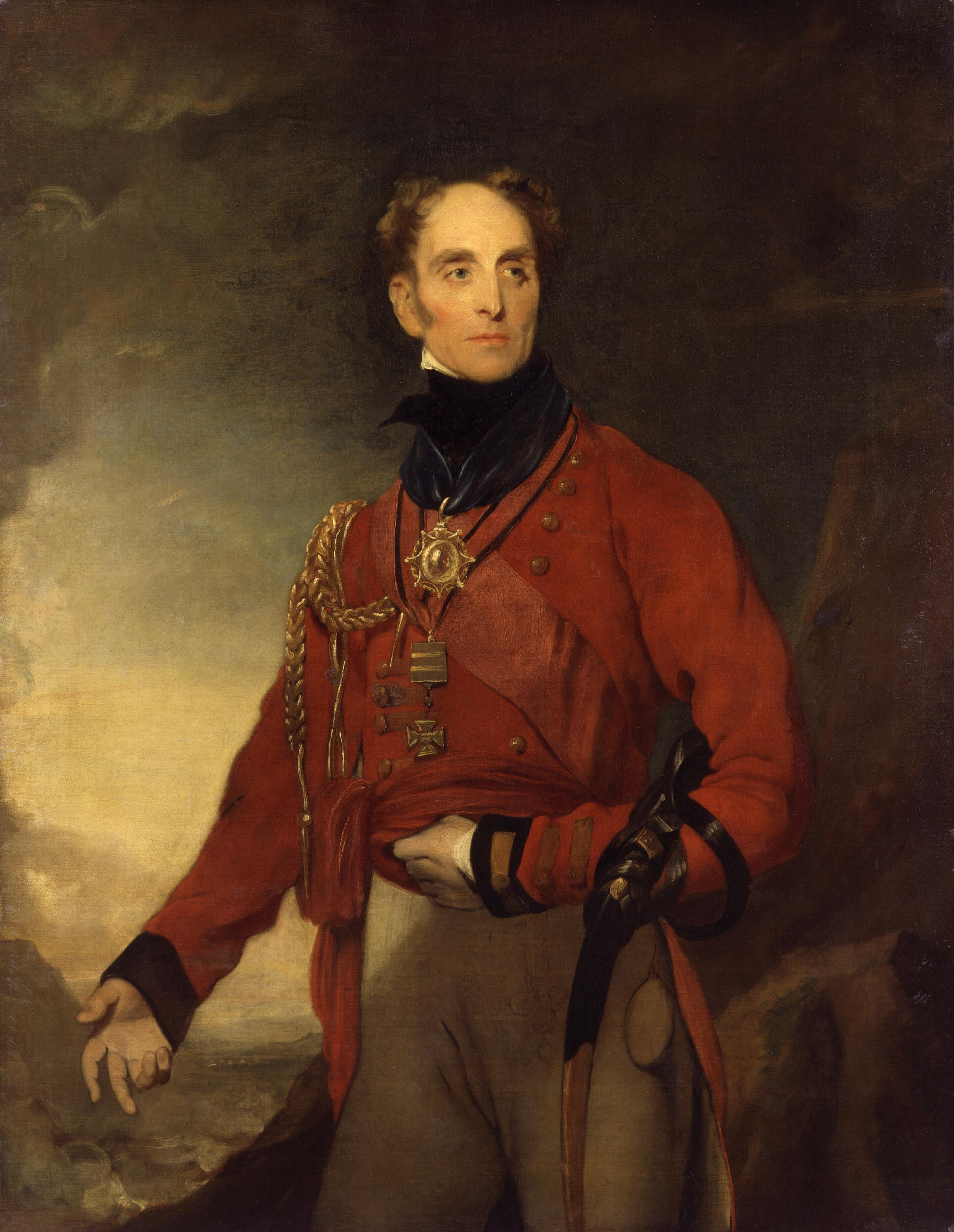 Sir Galbraith Lowry Cole, by William Dyce (died 1864). All images in this batch have been confirmed as author died before 1939 according to the official death date listed by the NPG.